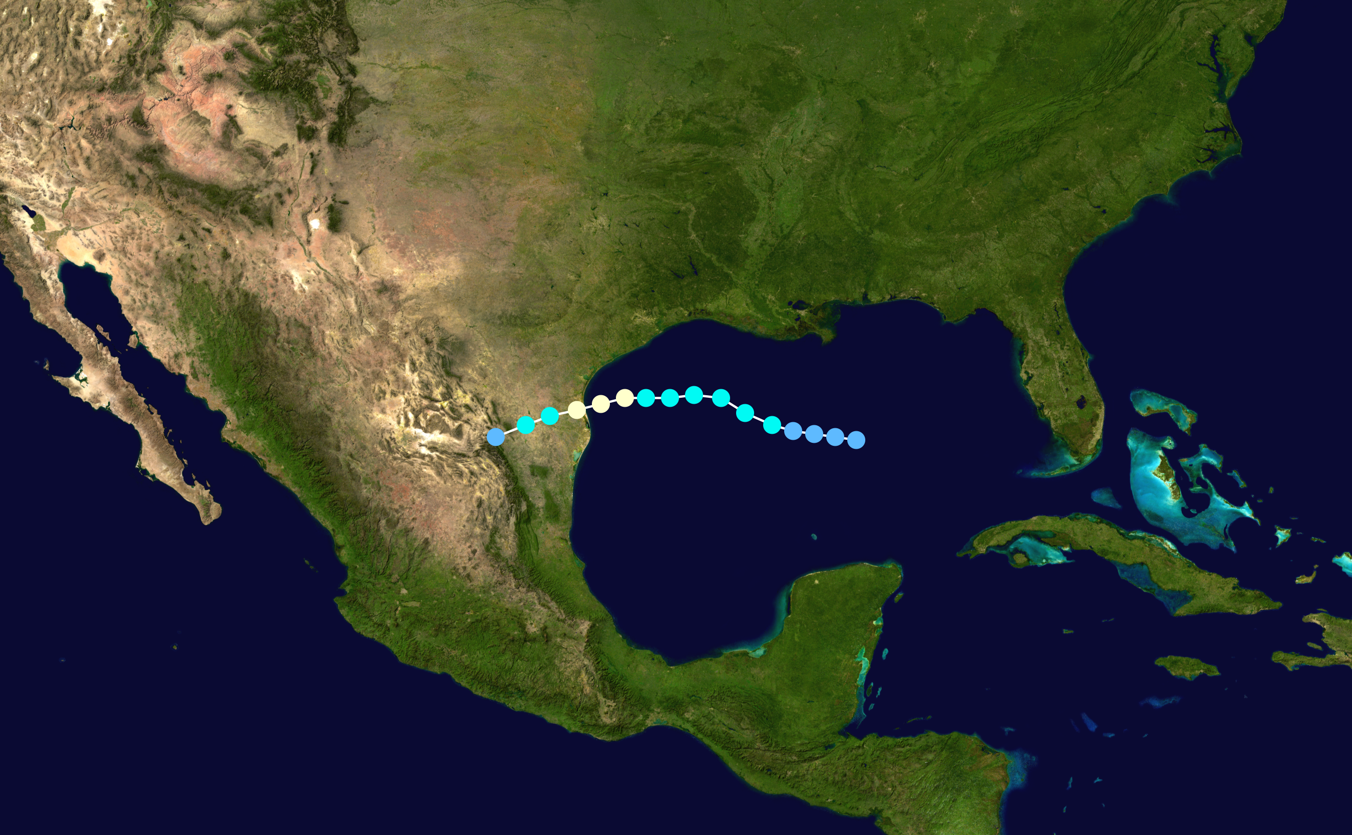 Track map of Hurricane Hanna of the 2020 Atlantic hurricane season. The points show the location of the storm at 6-hour intervals. The colour represents the storm's maximum sustained wind speeds as classified in the Saffir–Simpson scale (see below), and the shape of the data points represent the nature of the storm, according to the legend below. Saffir–Simpson scale Tropical depression≤38 mph≤62 km/h Category 3111–129 mph178–208 km/h Tropical storm39–73 mph63–118 km/h Category 4130–156 mph209–251 km/h Category 174–95 mph119–153 km/h Category 5≥157 mph≥252 km/h Category 296–110 mph154–177 km/h Unknown Storm type Tropical cyclone Subtropical cyclone Extratropical cyclone / Remnant low / Tropical disturbance / Monsoon depression